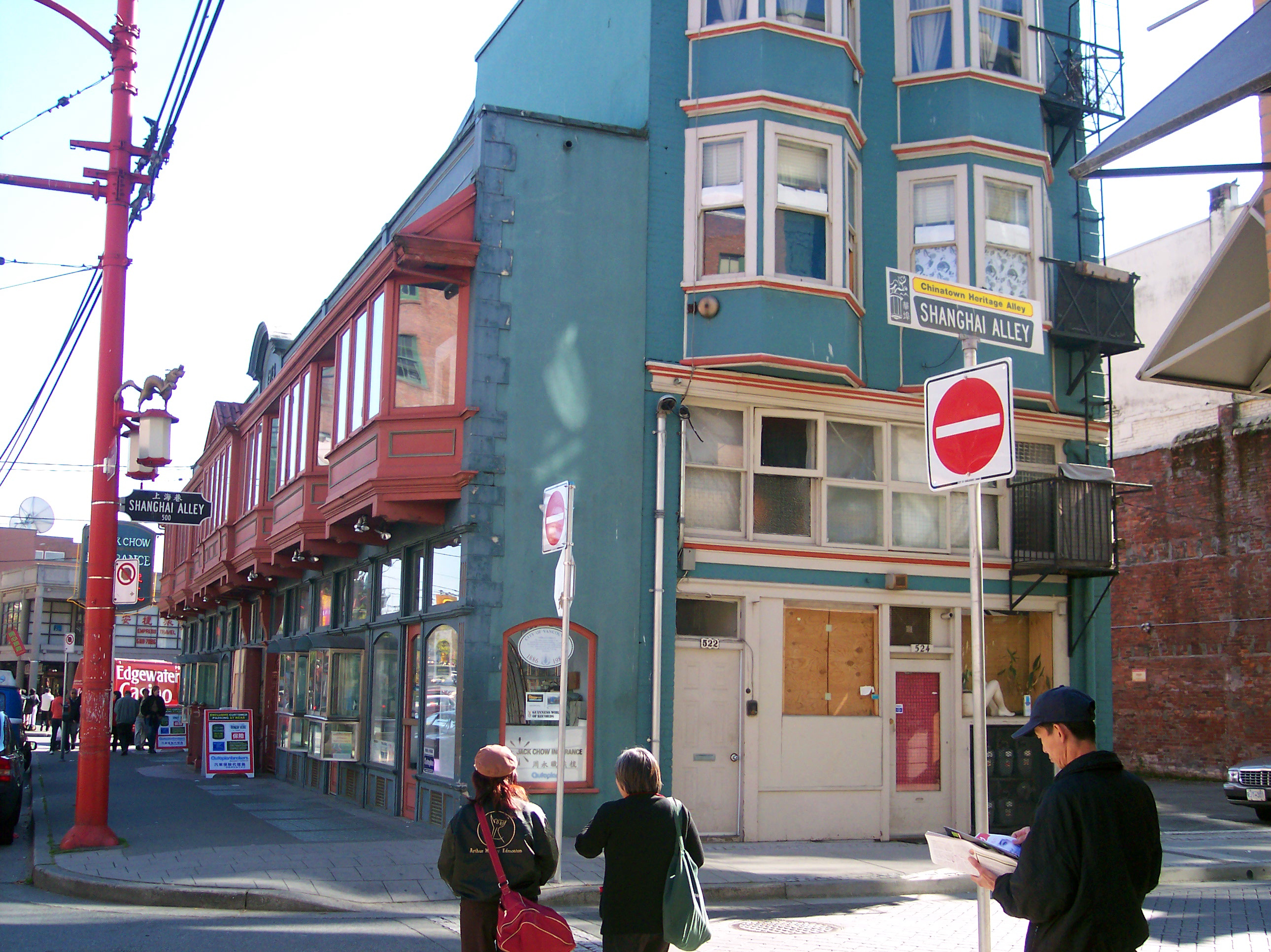 Sam Kee Building, Pender Street, Vancouver, BC, Canada